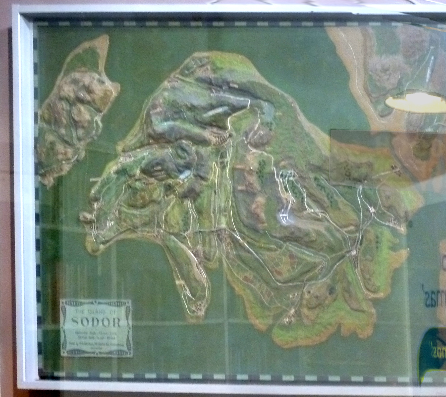 Wilbert Awdry's map of Sodor on the wall of his study, now preserved in the Talyllyn Railway museum